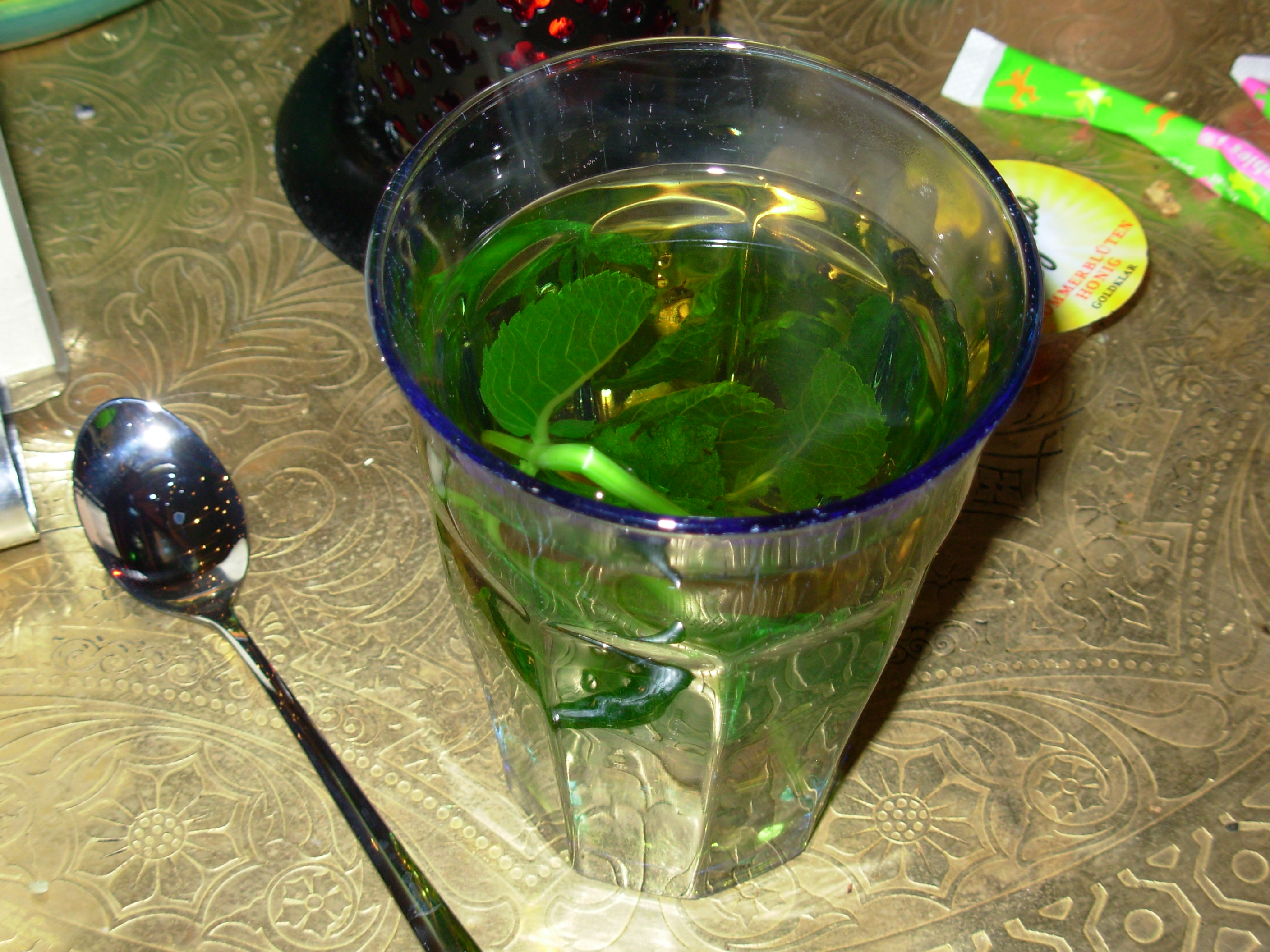 Peppermint tea